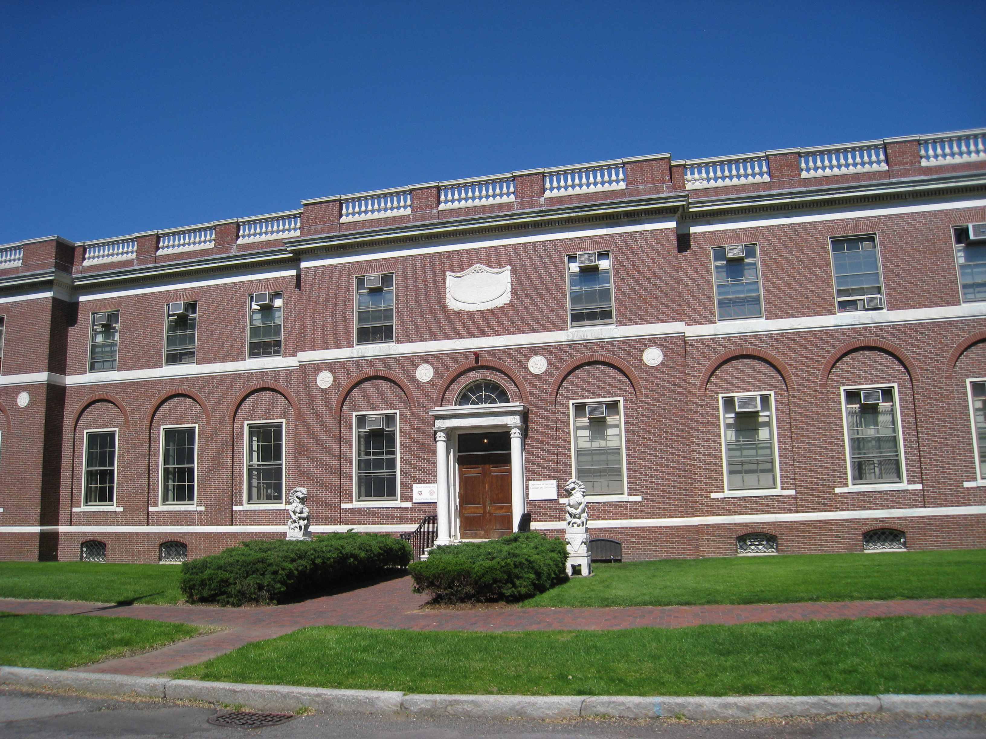 Harvard-Yenching Institute, Harvard University, Cambridge, Massachusetts, USA. Front facade.